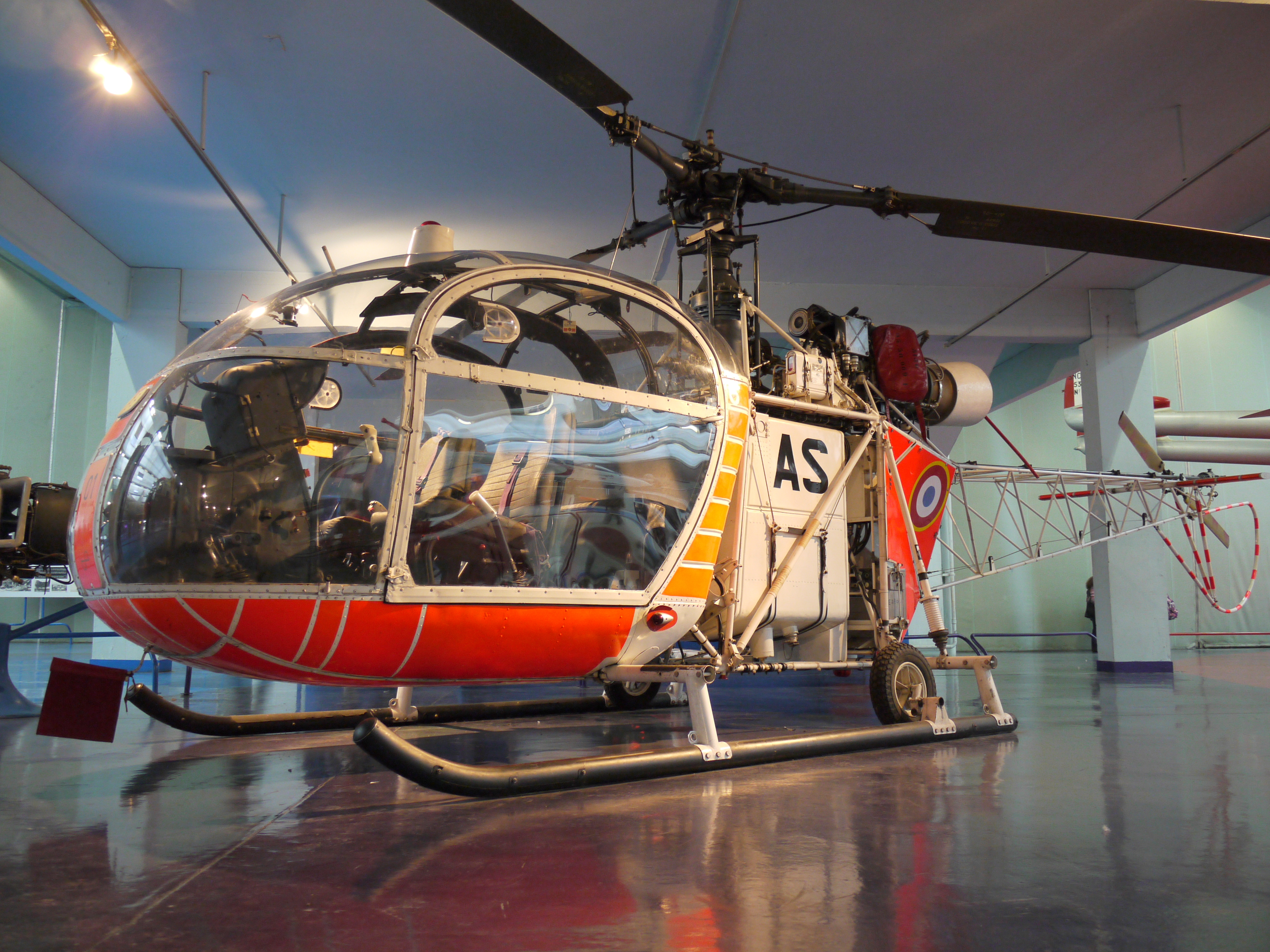 Light helicopter Alouette II 01 AS (1955), Museum of Air and Space Paris, Le Bourget (France)